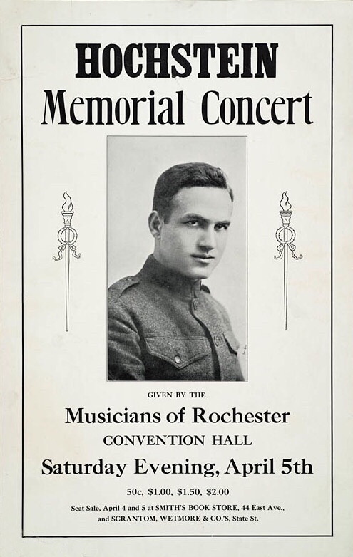 A poster for a memorial concert for David Hochstein. Hochstein, a promising Rochester, New York, violinist, was killed during the Meuse-Argonne Offensive in October 1918. Funds raised from the concert were to become the nucleus of support for a Memorial Music School, now the Hochstein School of Music & Dance. Emily Sibley Watson and George Eastman contributed to the effort.